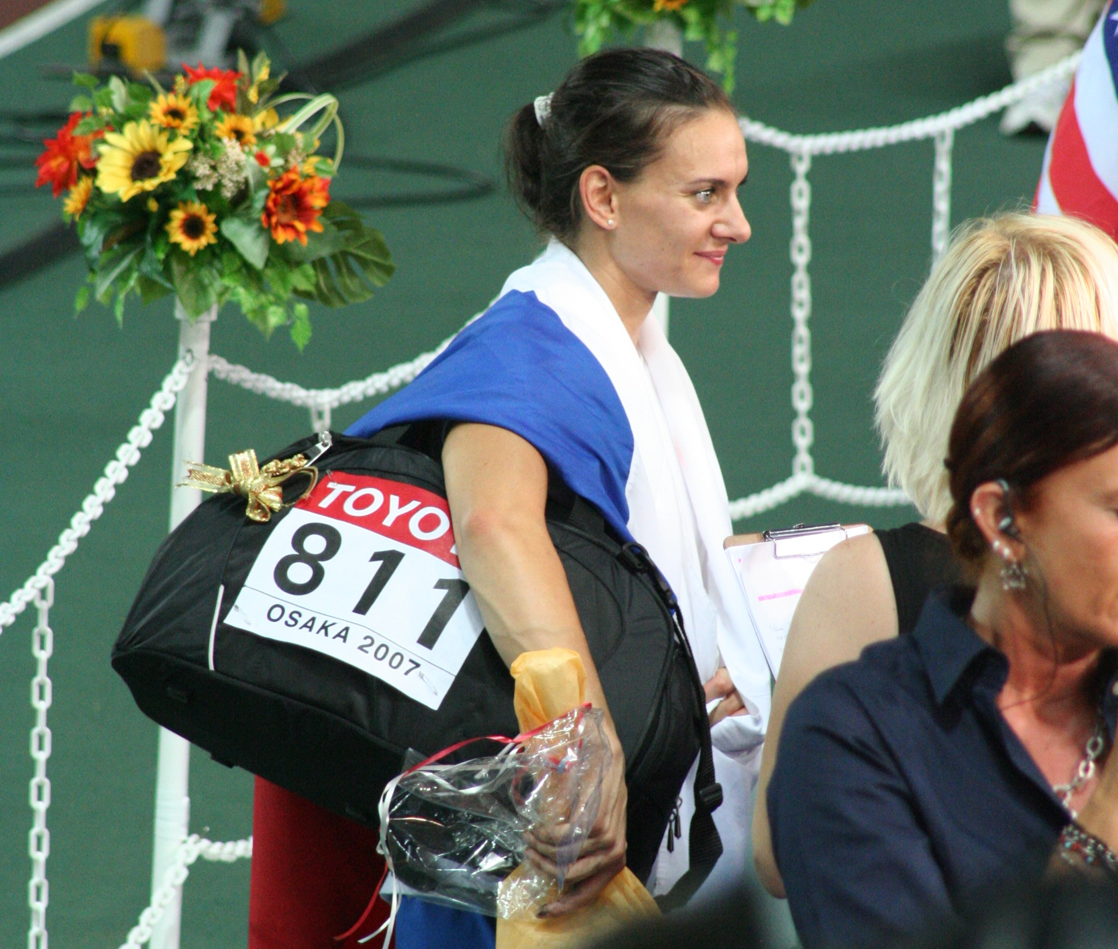 World Athletics Championships 2007 in Osaka - Portrait of Russian athlete Yelena Isinbaeva at the interview stand after winning the women's pole vault competition